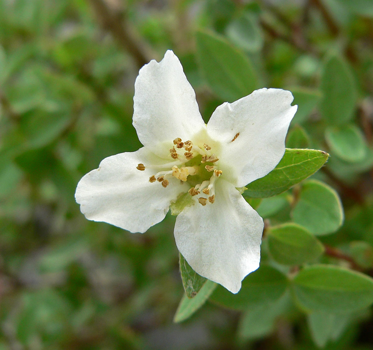 Philadelphus microphyllus on the North Loop trail east of Mummy Mountain, Spring Mountains, southern Nevada (elev. about 2900 m) — in Clark County, southern Nevada.